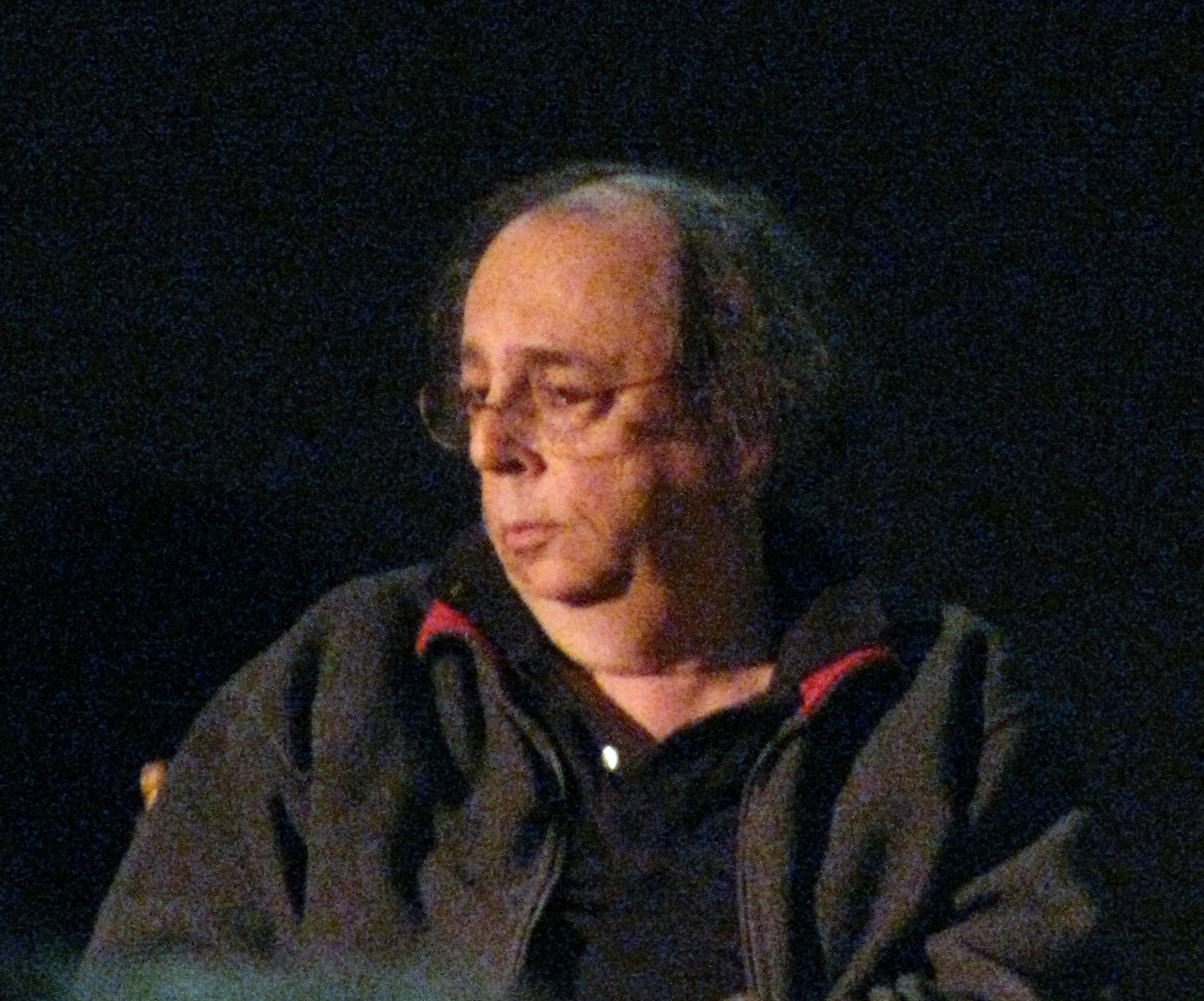 Richard Foreman, speaking at the Market Arcade Theater in Buffalo, NY, at "An Evening with Richard Foreman", hosted by the University at Buffalo's Center for the Moving Image.